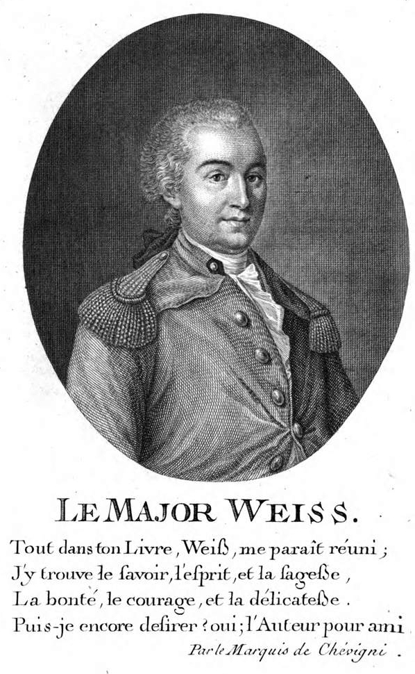 Frontispiece from: Weiss, François Rodolphe de (1789) Principes philosophiques, politiques et moraux, 1 (3rd ed.), En Suisse et à Paris: Madaran